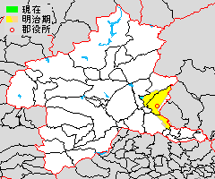 Map showing extent of former Yamada District, Gunma, Japan